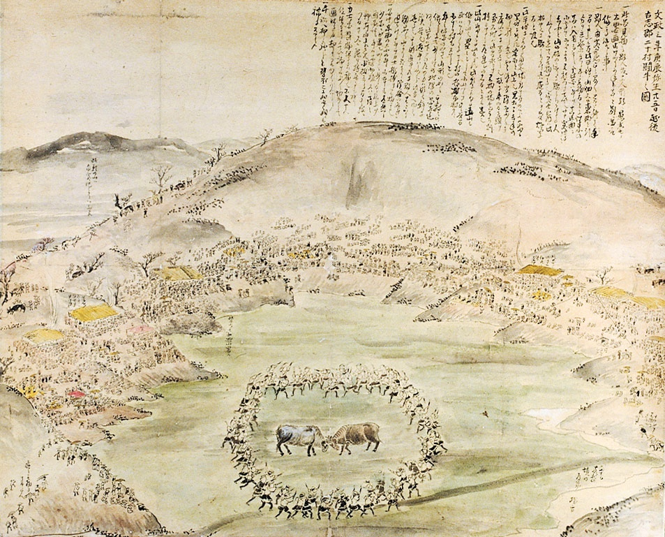 "Echigo Koshi-no-kōri Nijū-mura Tōgyū no zu" (Figure of bull wrestling in Nijū-mura village, Koshi District, Echigo Province) by Suzuki Bokushi in 1820. Collection of the Nagaoka City Central Library.